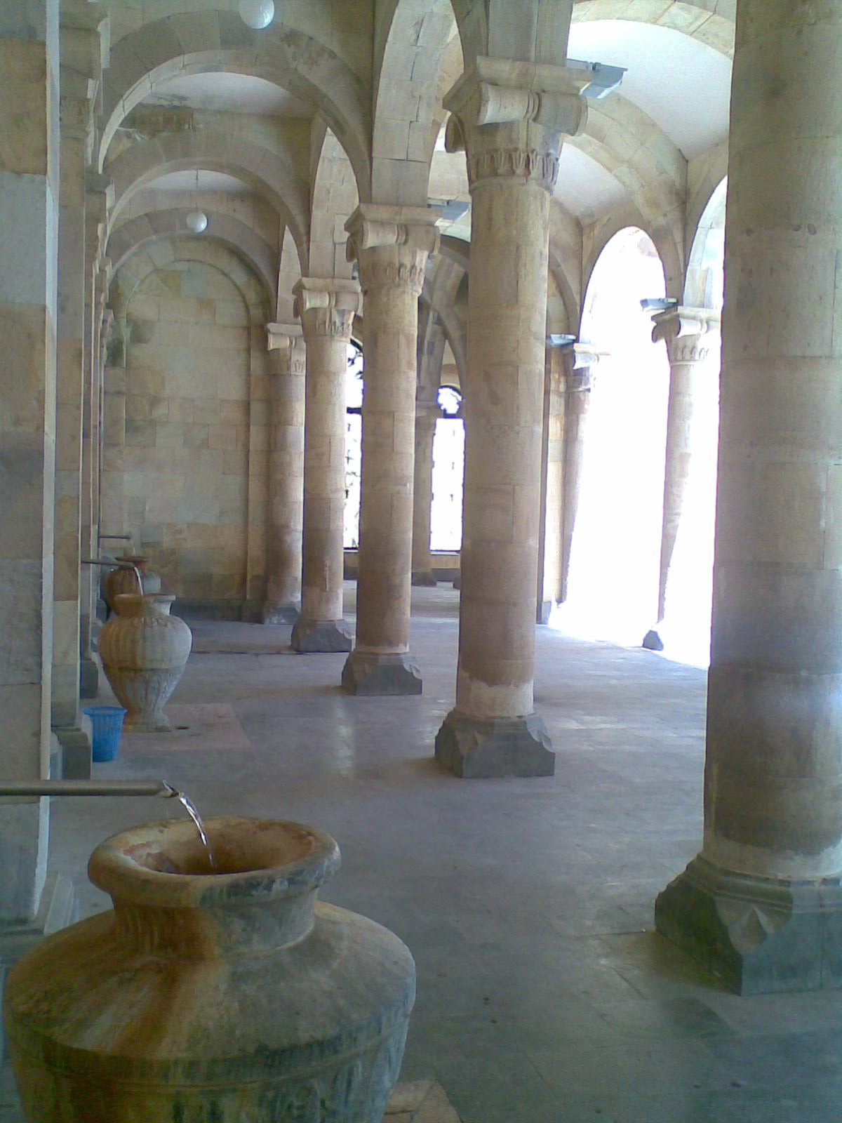 Jermuk